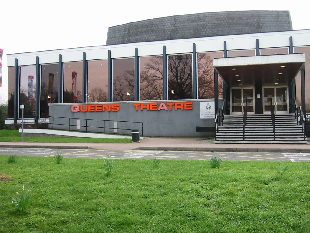 Queen's Theatre, Hornchurch, London. I took the picture myself.